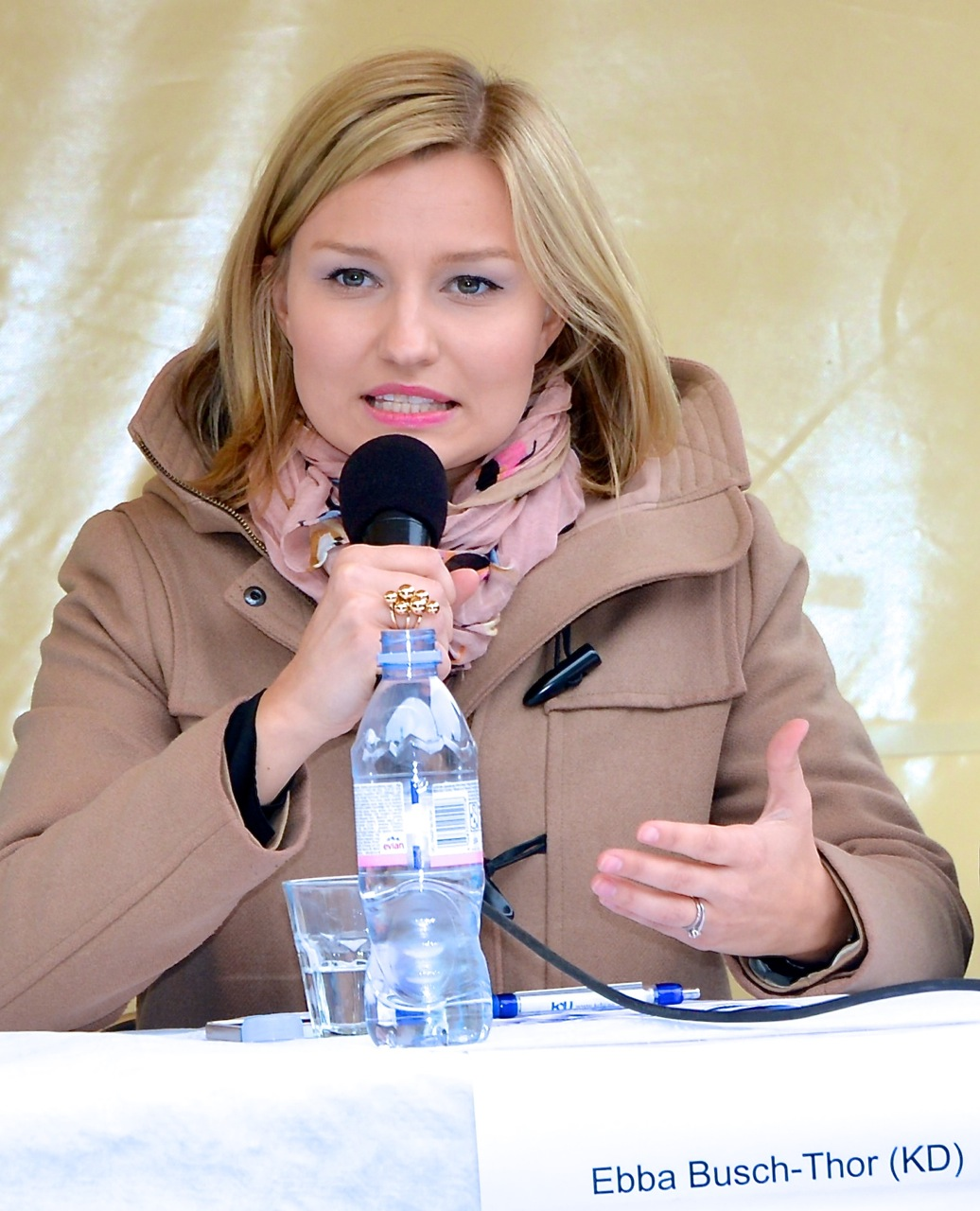 Ebba Busch Thor in a panel discussion on animal welfare in the Kungsträdgården in Stockholm May 14, 2014 for the European elections.